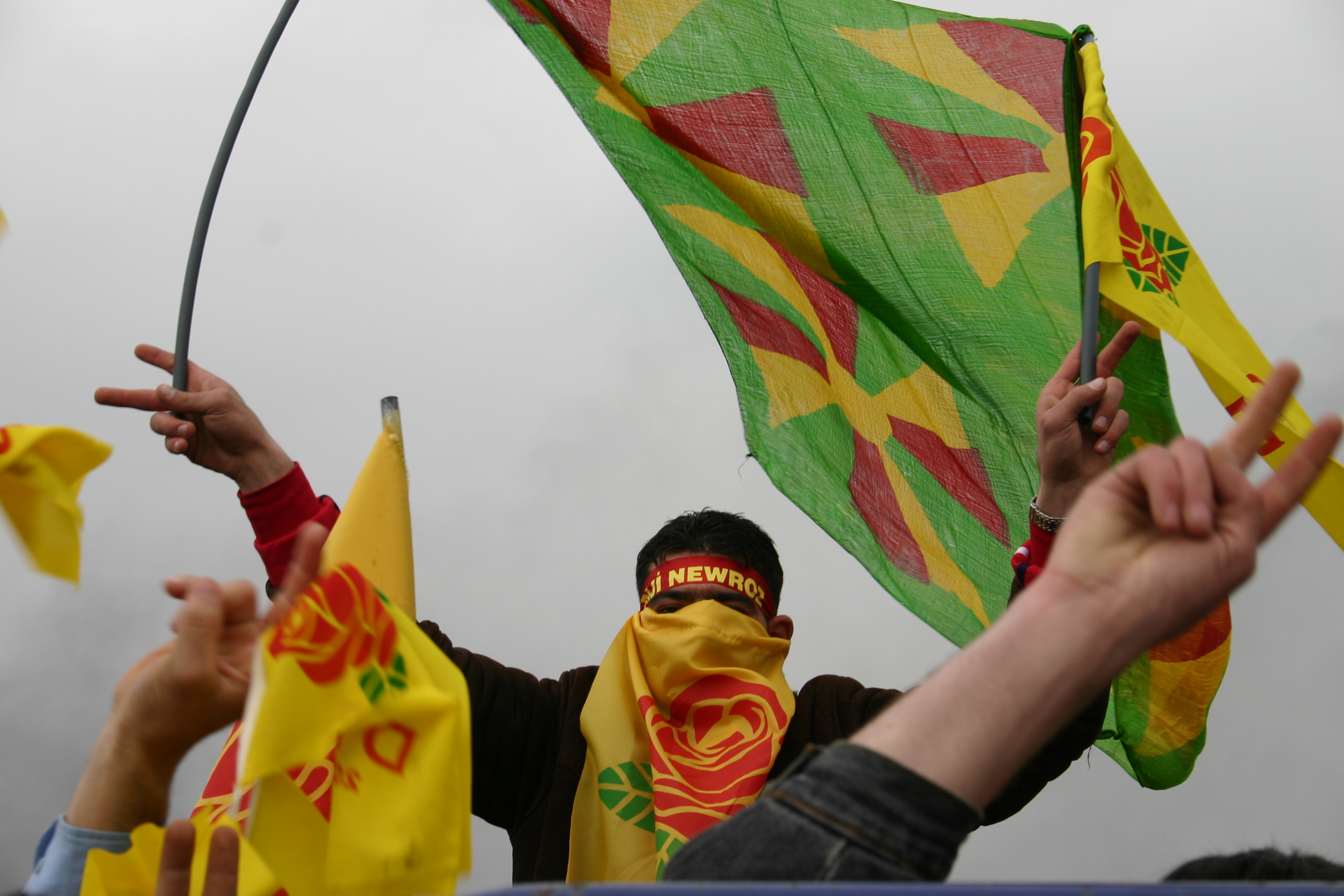 Newroz celebration in Istanbul. Photo by Bertil Videt 2006.